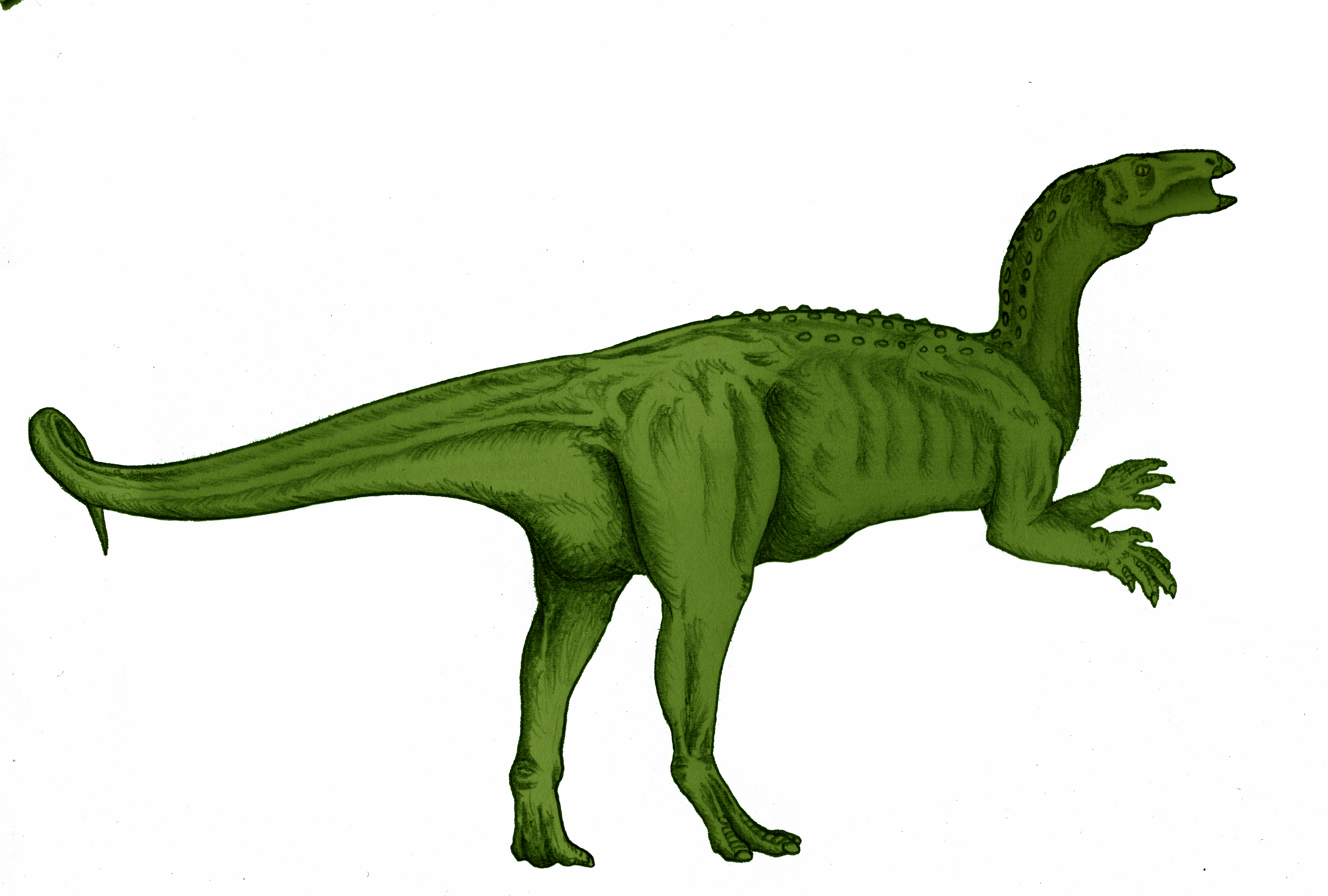 Restoration of Talenkauen santacrucensis, an ornithopod dinosaur